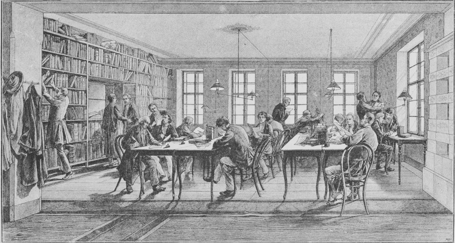 Office of Otto's encyclopedia (Ottův slovník naučný).